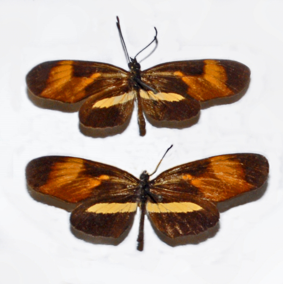 Eresia lansdorfi from Paraguay. Upperside. Mounted specimen on display at the Civico Museo di Storia Naturale di Trieste